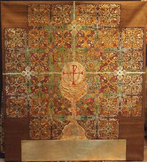 Cruce (Silviu Oravitzan)